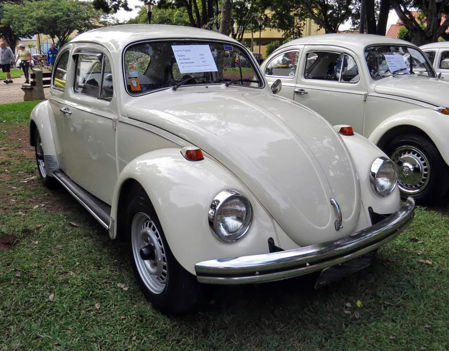 1972 Volkswagen do Brasil "Fusca".